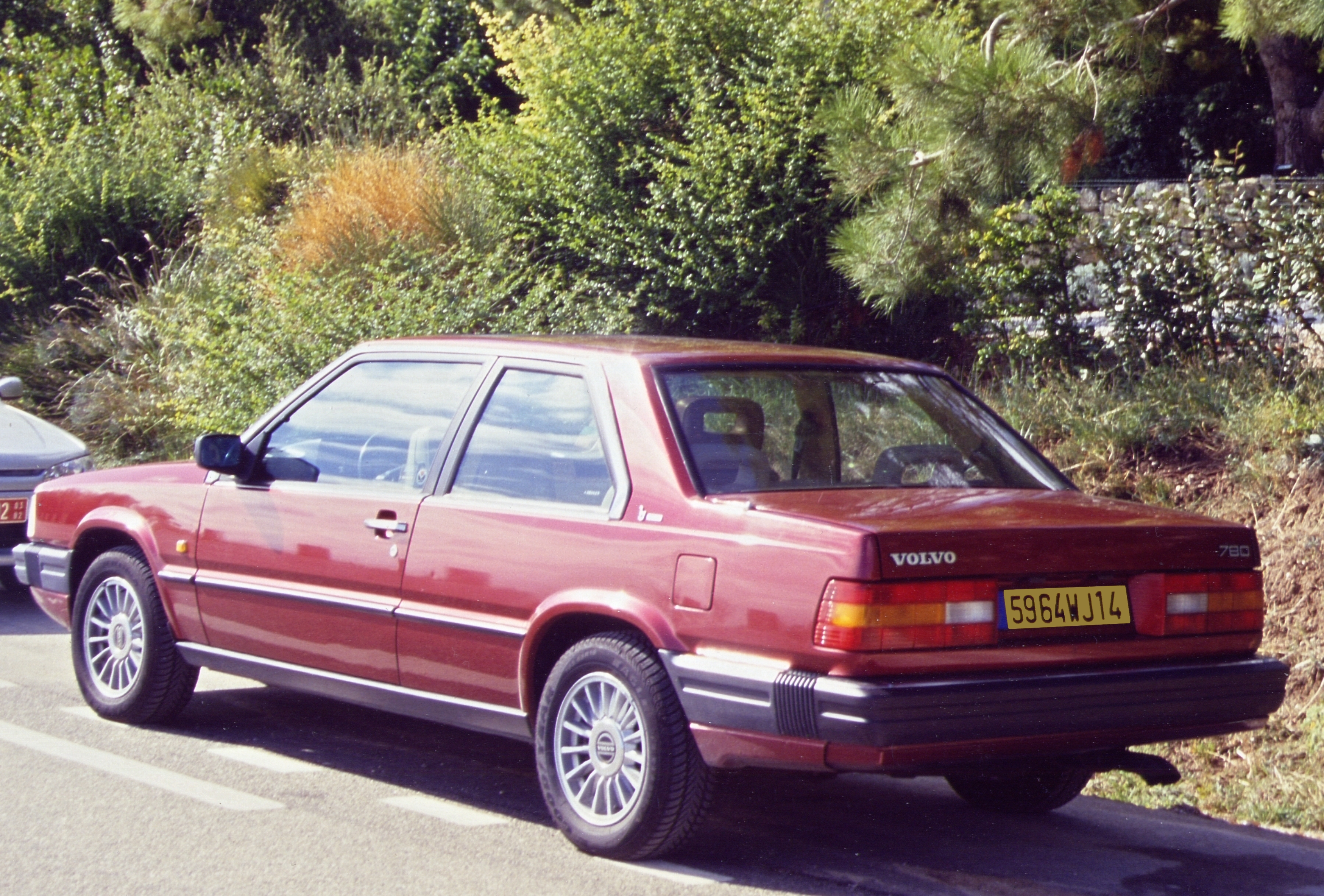 Volvo 780 in Les Baux-de-Provence